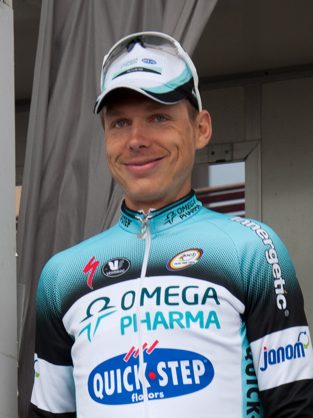 Podium ceremony of Tour de Romandie 2013's stage 5, in Geneva, Switzerland. Tony Martin entering on the stage.